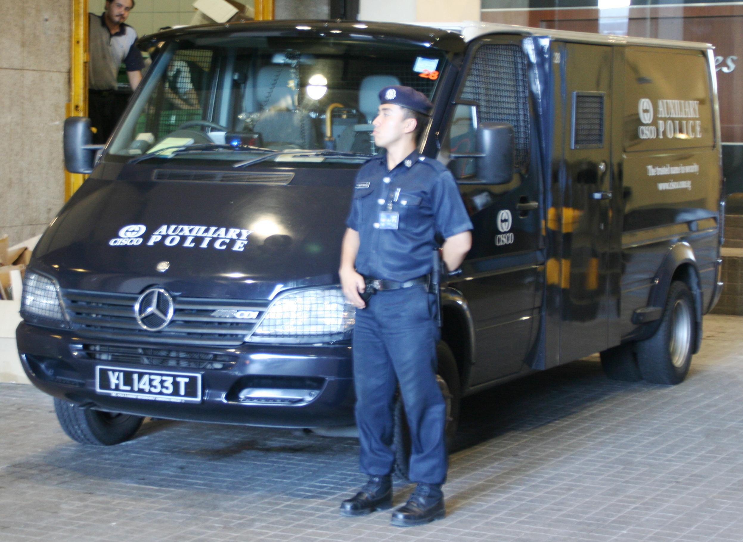 CISCO Security auxiliary police officer with armoured truck. Location: Change Alley, Collyer Quay, Singapore Date: 13/06/2005 15:53